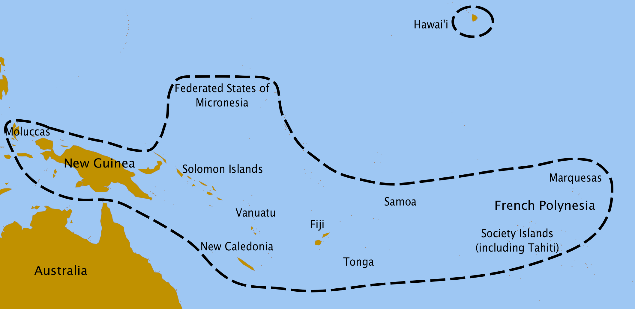 Map showing the region in which Fe'i bananas are found and (historically at least) used for food. Based on: Sharrock, S. (2001), “Diversity in the genus Musa: focus on Australimusa”, in Networking Banana and Plantain: INIBAP Annual Report 2000, Montpellier, France: International Network for the Improvement of Banana and Plantain, pages 14–19, with Federated States of Micronesia added based on: Englberger, Lois (2003), “Carotenoid-rich bananas in Micronesia”, in InfoMusa[1], volume 12, issue 2, pages 2–5.